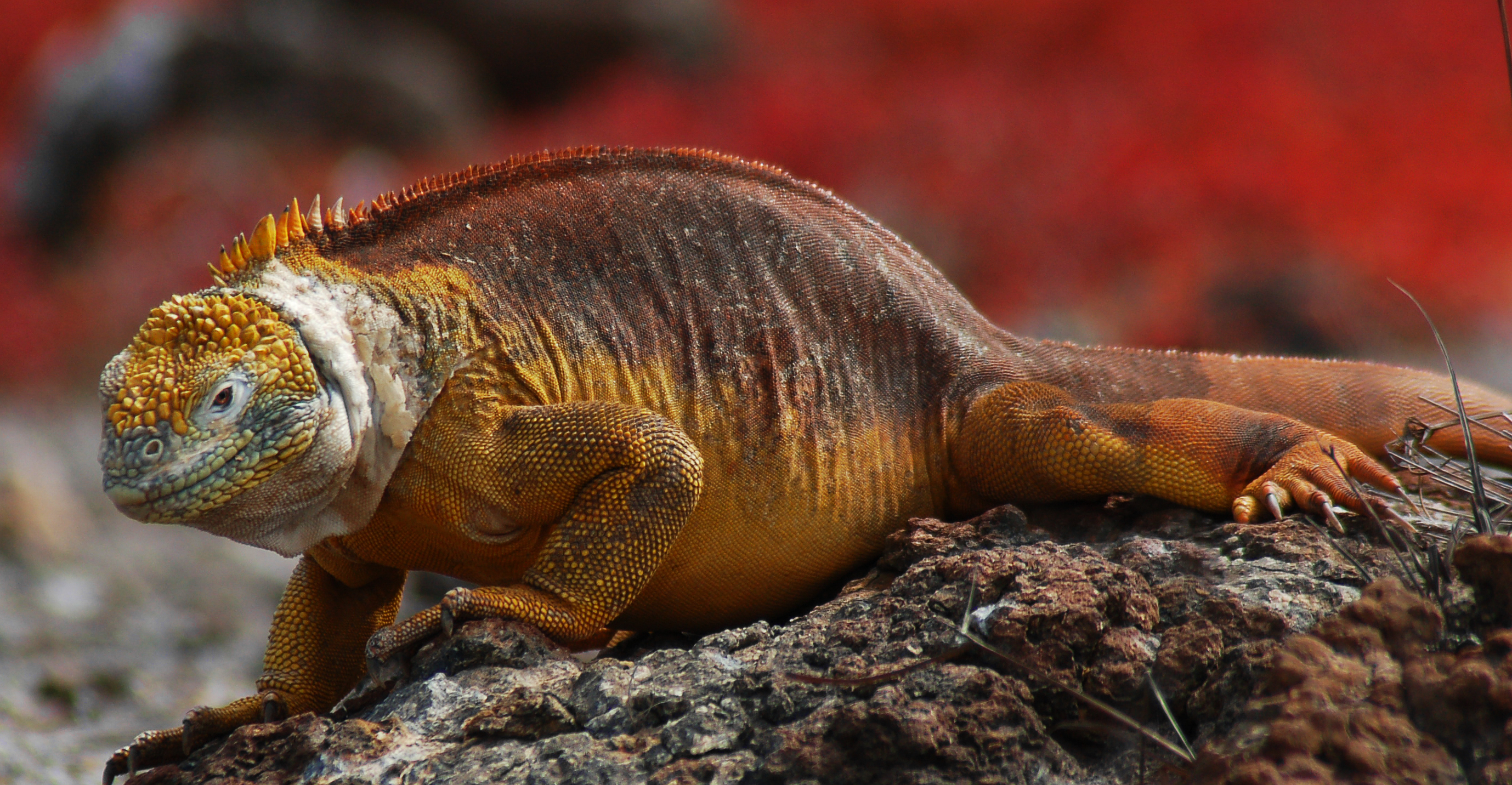 Conolophus subcristatus